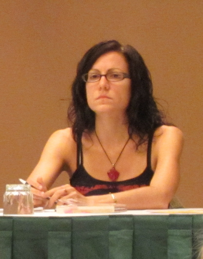 Speakers at the Texas Freethought Convention 2011